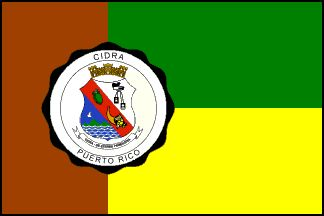 Flag of Cidra, Puerto Rico